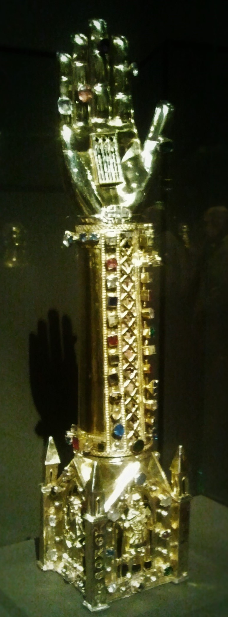 Arm reliquary of Saint George from the St. George Convent at the Prague Castle. 13th and 14th century.